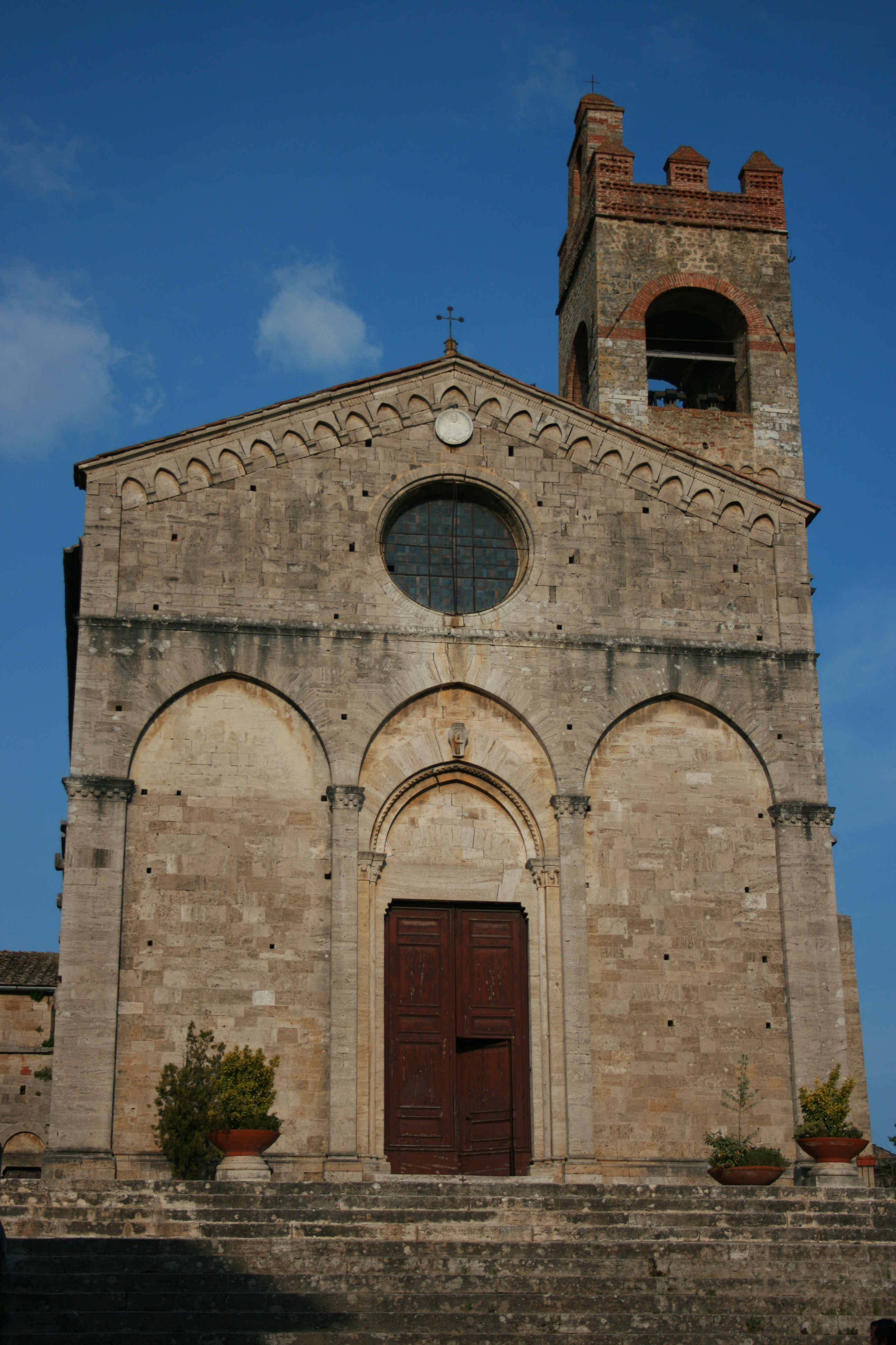 Church of Saint Agata, Asciano, Siena, Italy